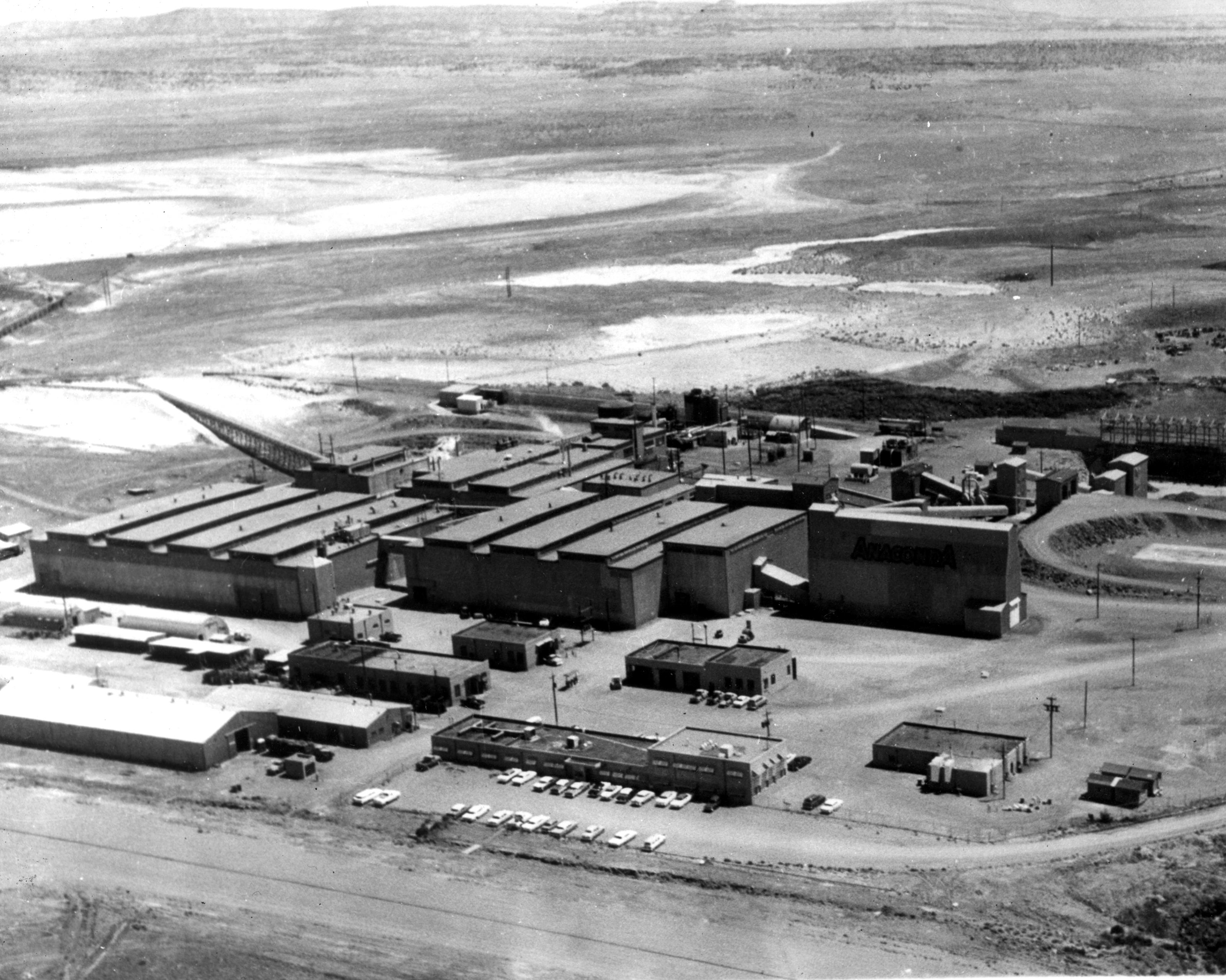 The Anaconda Company BLUEWATER MILL, a Uranium mill, is located ten miles northwest of Grants in McKinley County, western New Mexico. One of the largest of the 24 U.S. uranium processing plants under contract to the AEC−Atomic Energy Commission at the time.